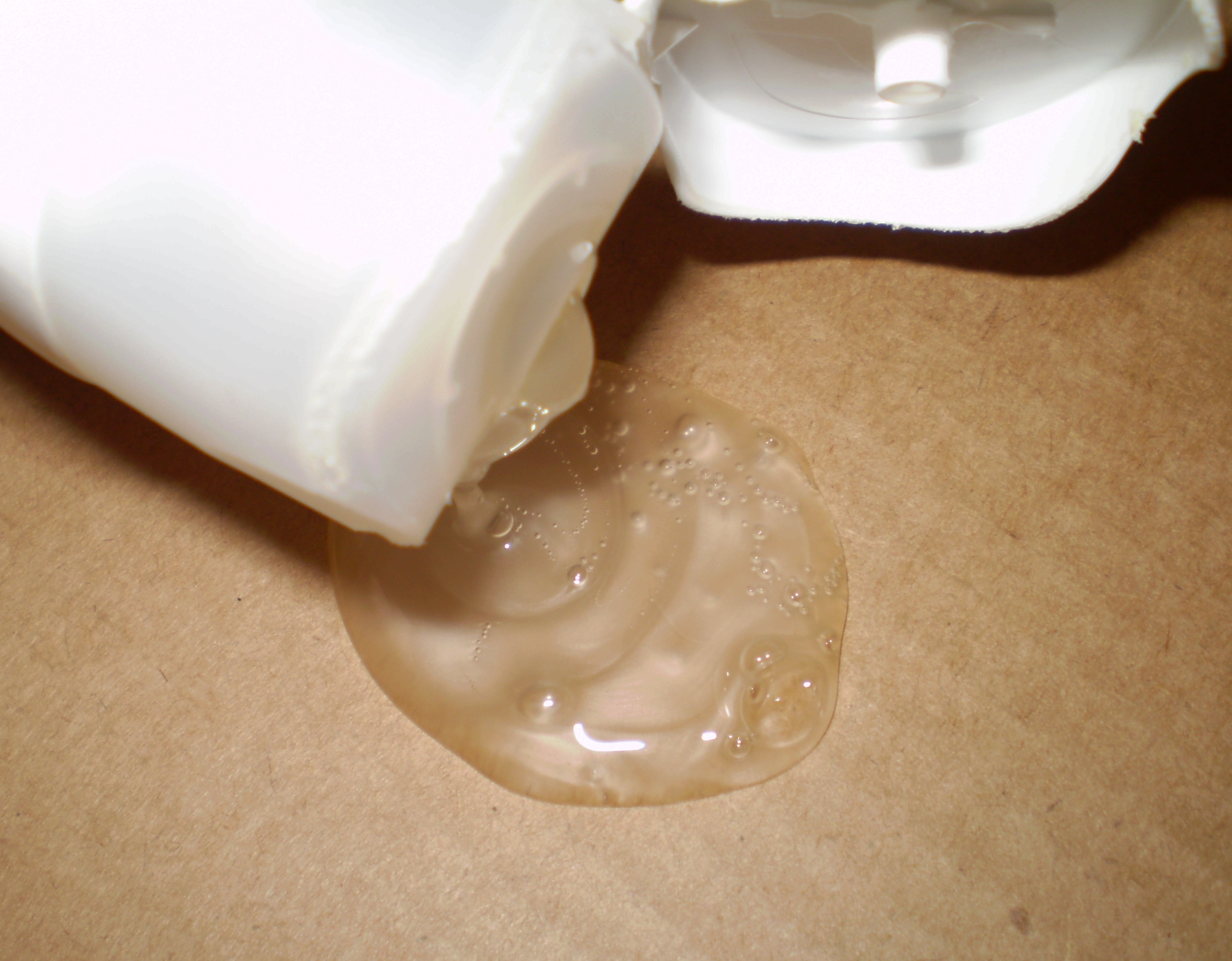 shampoo